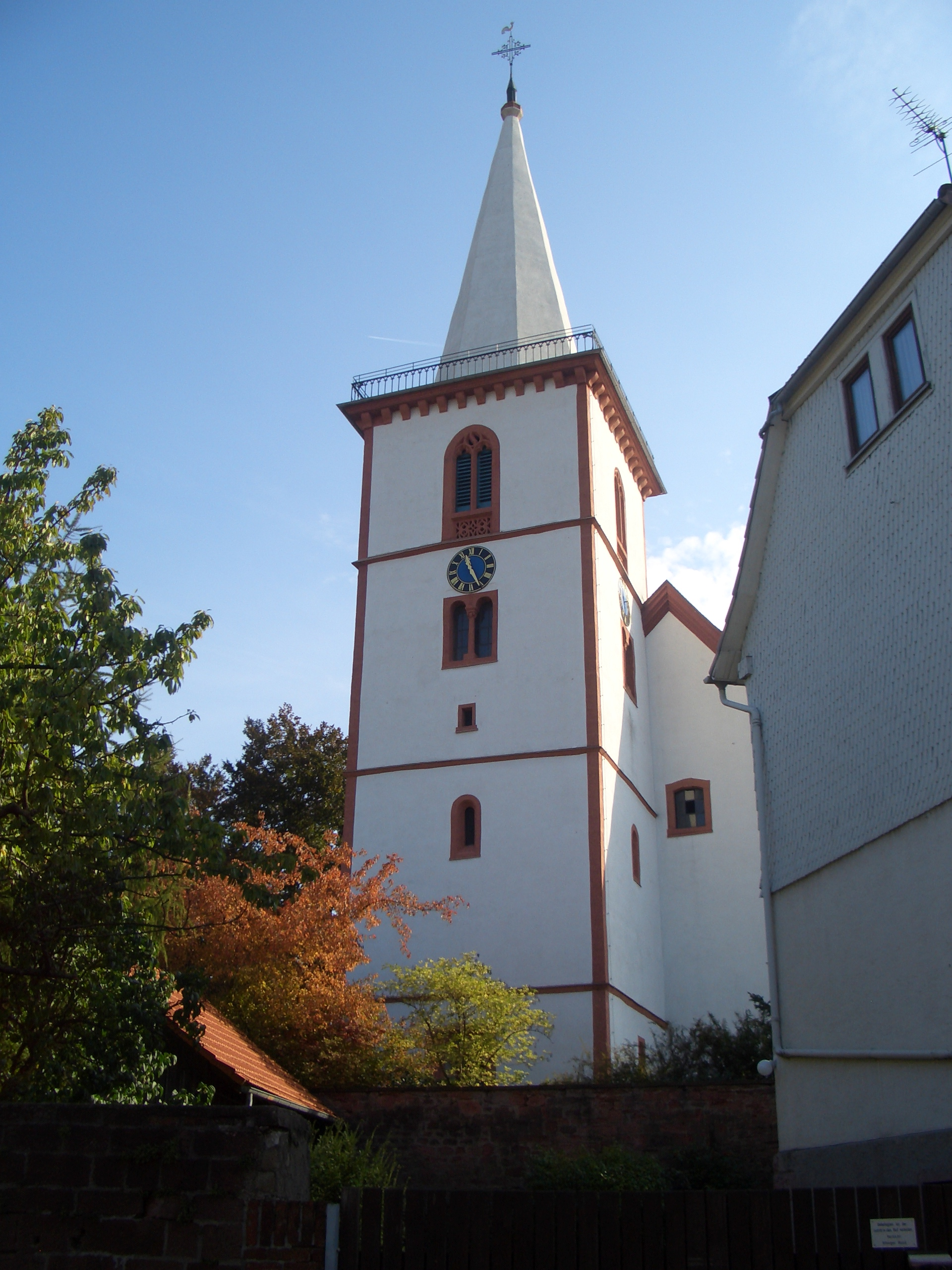 Otzberg evangelic church St. Gallus in Otzberg-Lengfeld